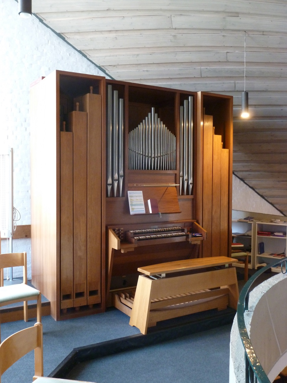 Martin-Luther-Kirche Münster Orgel